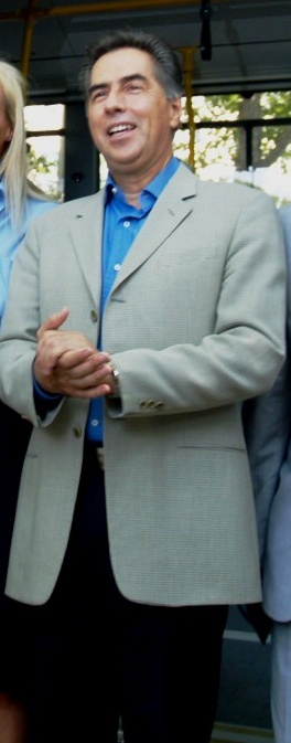 Mayor of Thessaloniki and former track champion Vasilis Papageorgopoulos.